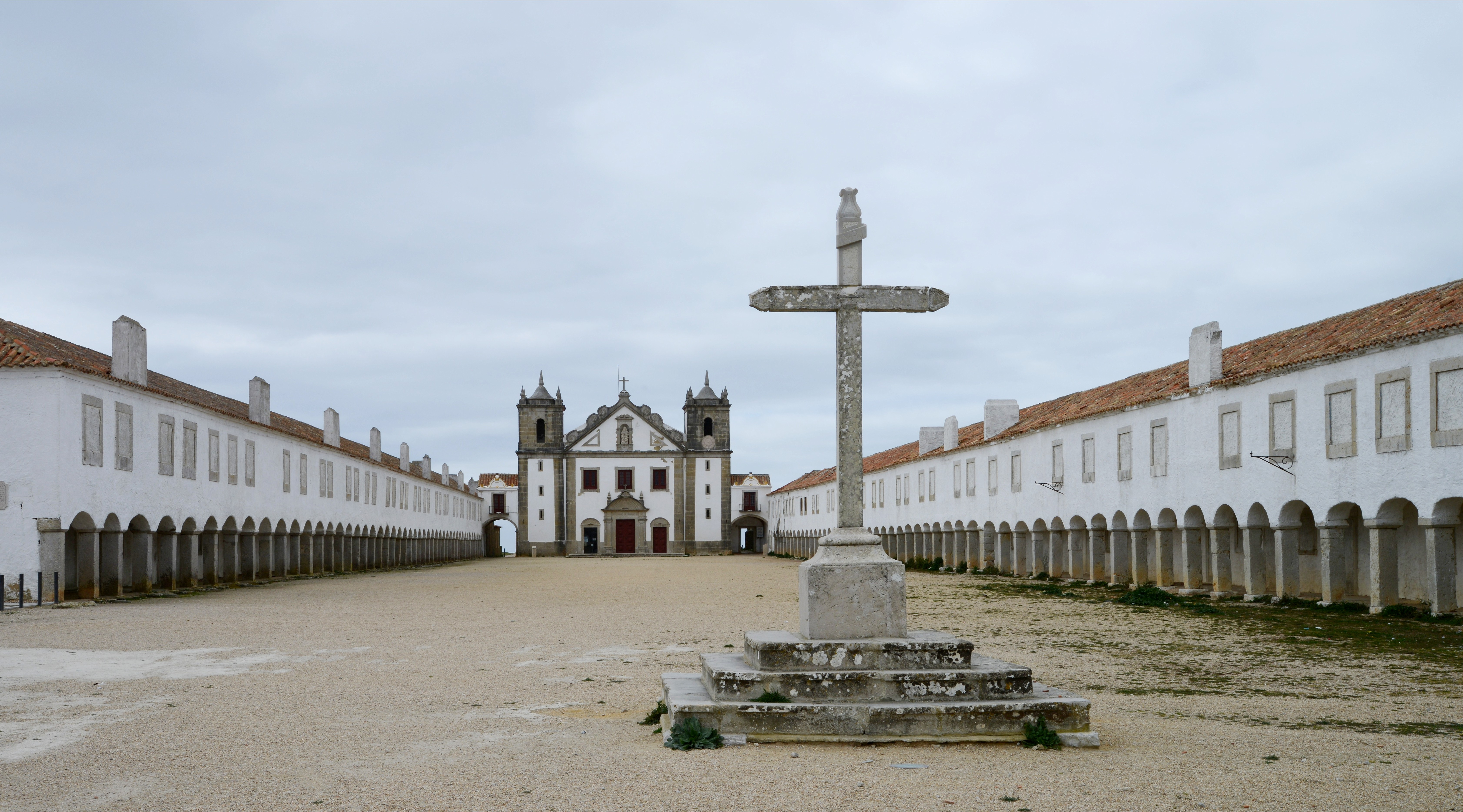 Church and sanctuary of Nossa Senhora da Pedra Mua, Portugal